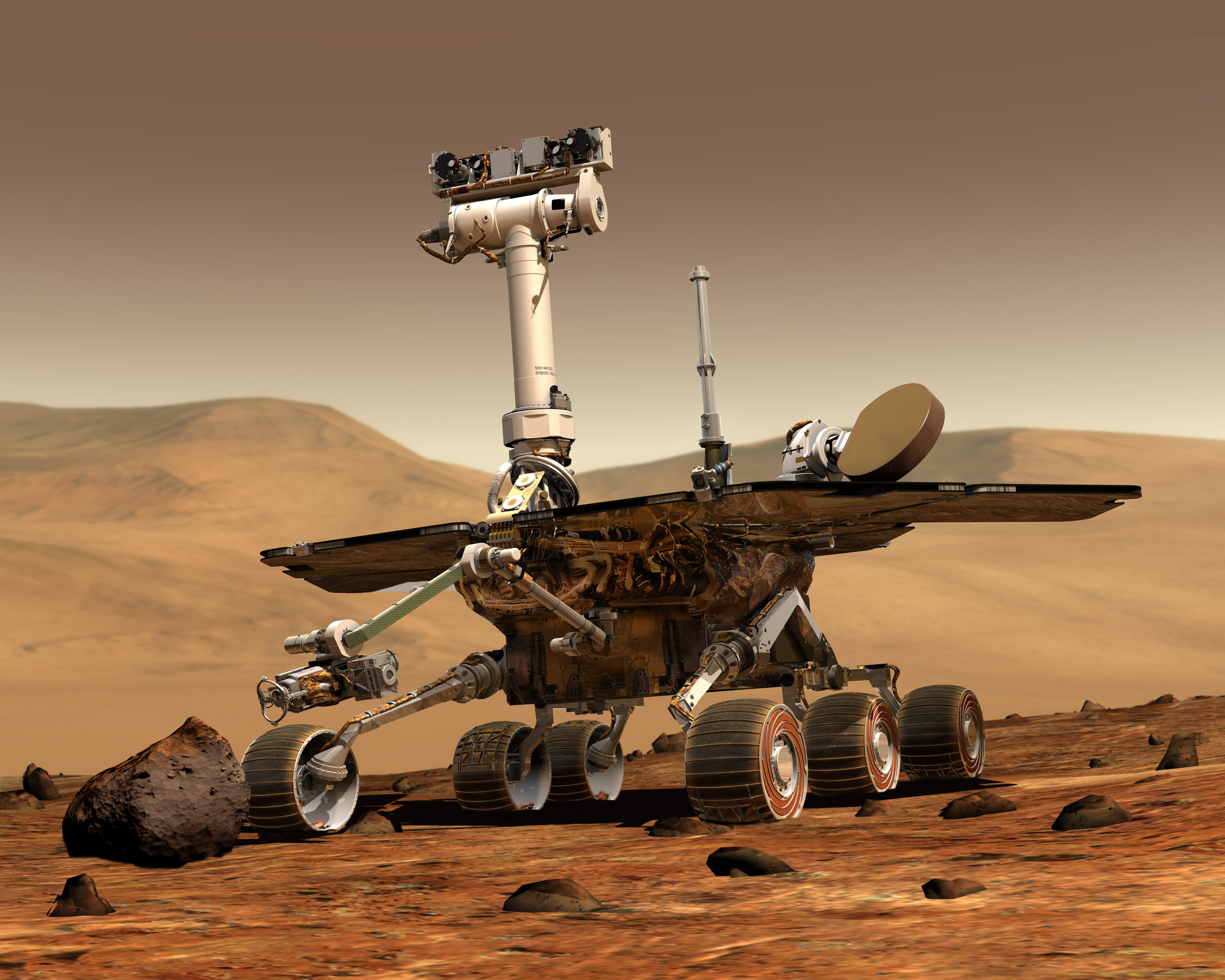 An artist's concept portrays a NASA Mars Exploration Rover on the surface of Mars. Rovers Opportunity and Spirit were launched a few weeks apart in 2003 and landed in January 2004 at two sites on Mars. Each rover was built with the mobility and toolkit to function as a robotic geologist.